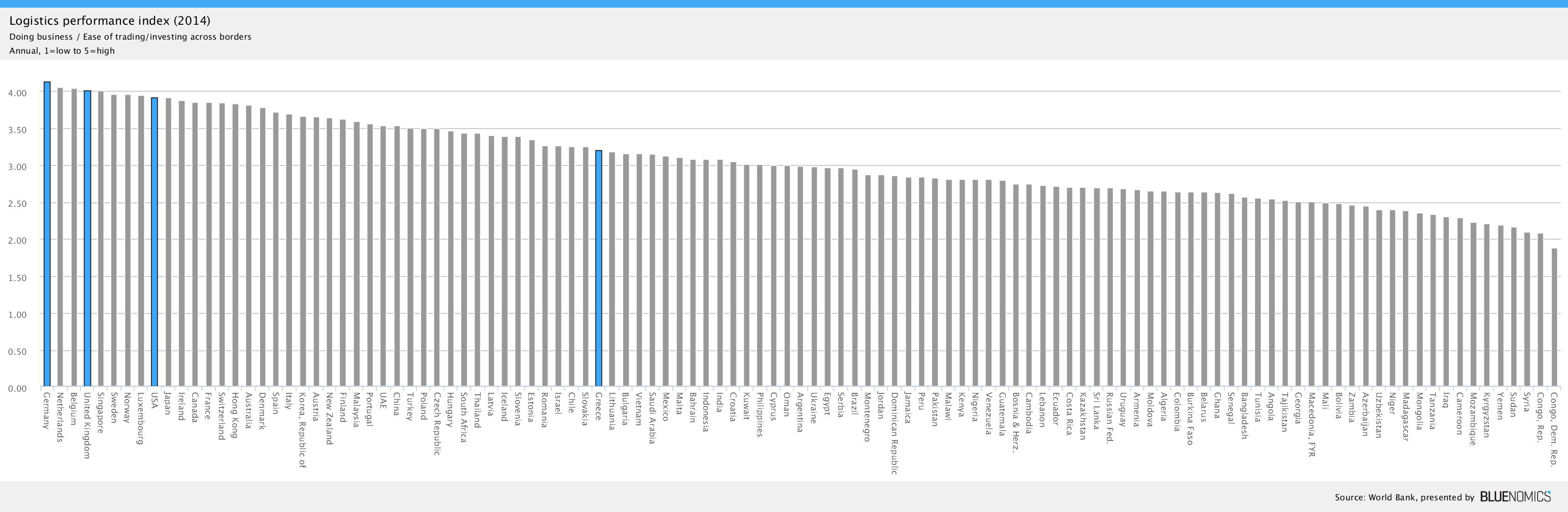 WB Logistics performance index 2014